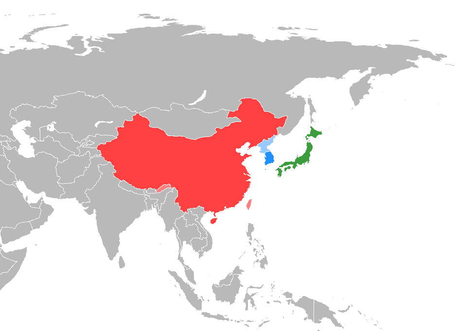 Map of the world with China-Japan-South Korea participating in trilateral meeting are highlighted in PR China , Japan , and South Korea .